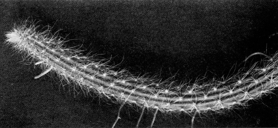 Selenicereus grandiflorus subsp. hondurensis or Selenicereus hondurensis